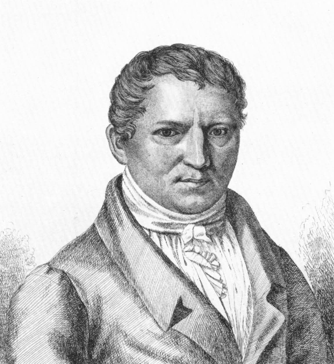 Karl Friedrich Eichhorn, German legal historian (1781-1854)